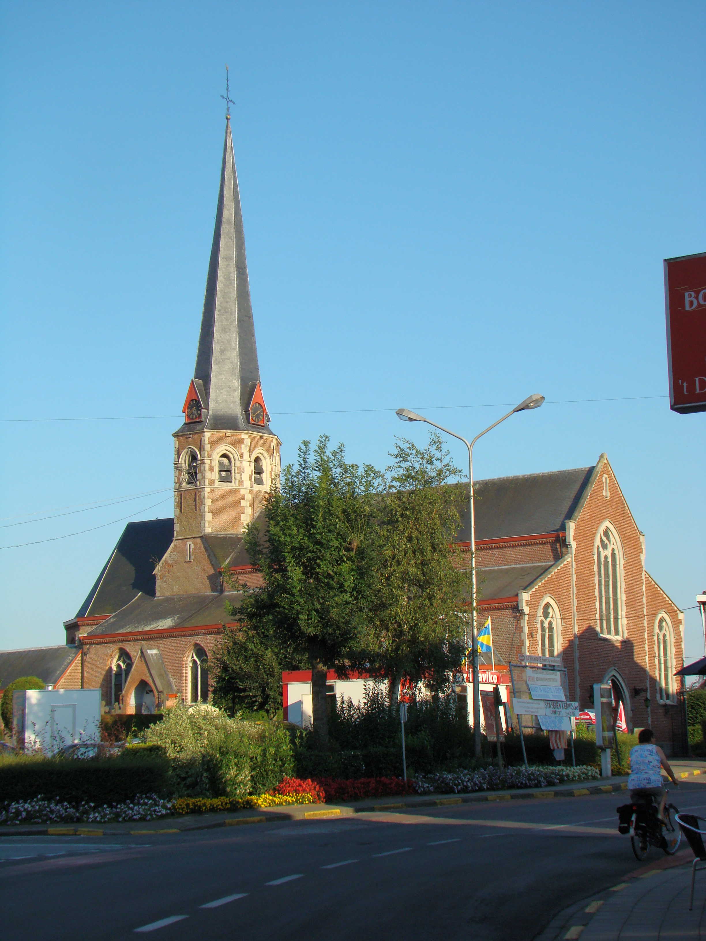 Bavikhove Harelbeke, (West Flanders, Belgium)